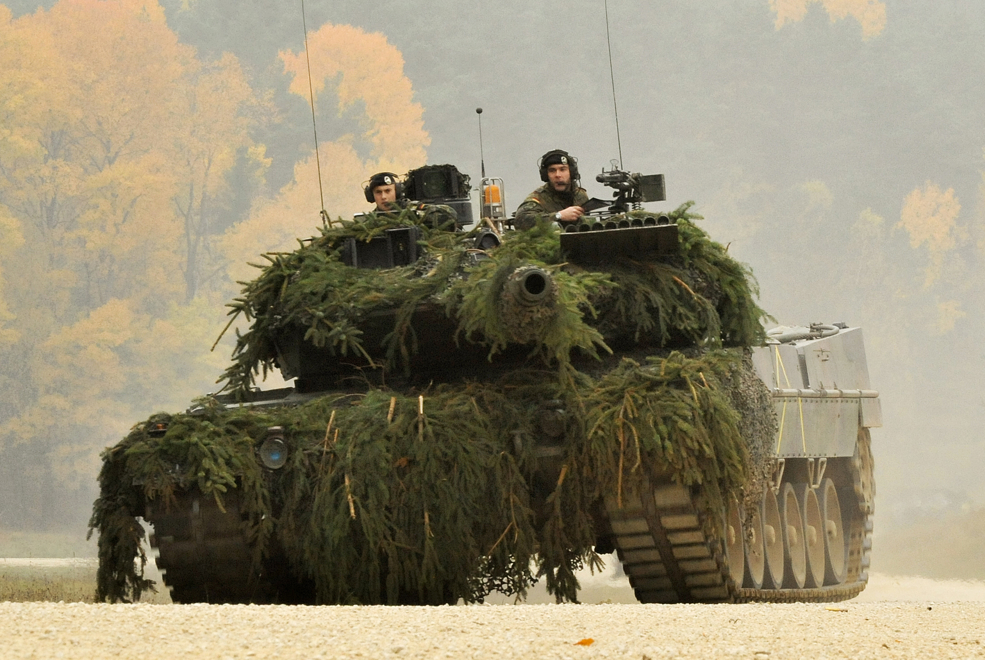 A German Army Leopard II tank, assigned to 104th Panzer Battalion, scans the battlefield at the Joint Multinational Readiness Center during Saber Junction 2012 in Hohenfels, Germany, Oct. 25. The U.S. Army Europe's exercise Saber Junction trains U.S. personnel and 1800 multinational partners from 18 nations ensuring multinational interoperability and an agile, ready coalition force.